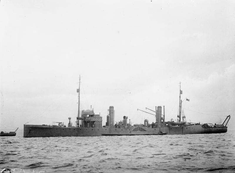 Photograph of British Racecourse class minesweeper HMS Plumpton.